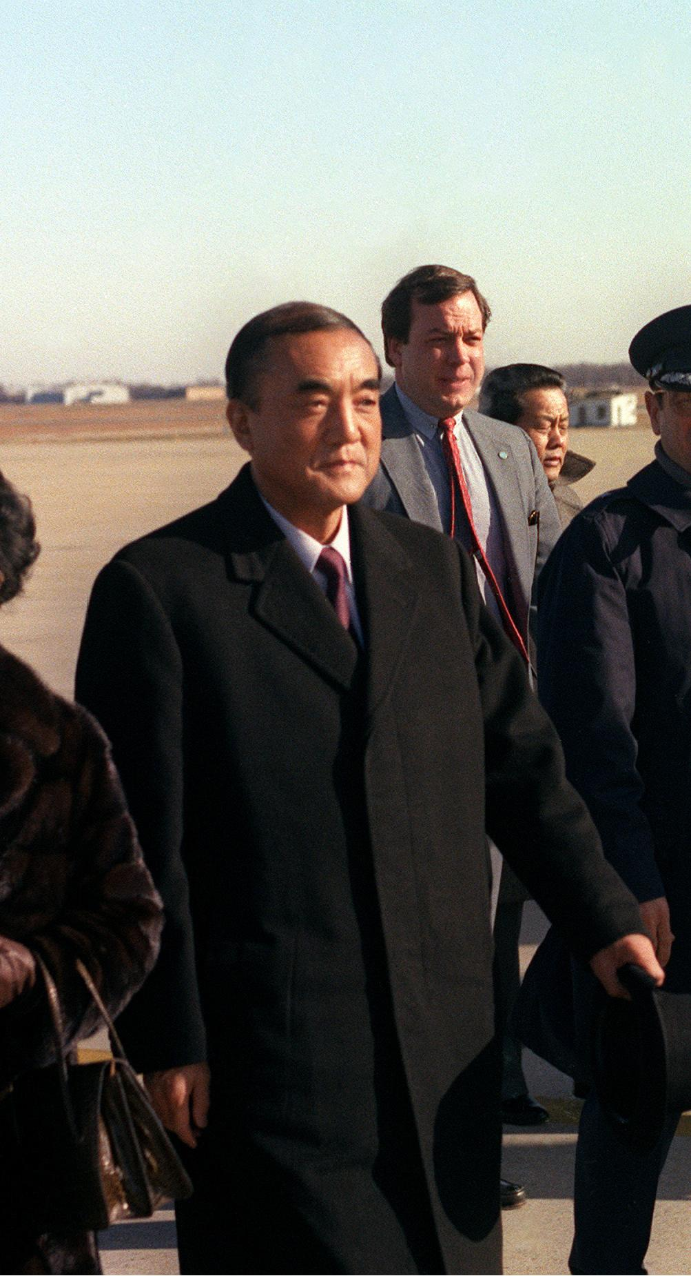 Japanese Prime Minister Yasuhiro Nakasone (中曾根康弘, in office 1982-87), departs at the conclusion of his visit. Location: Andrews Air Force Base, MD, USA